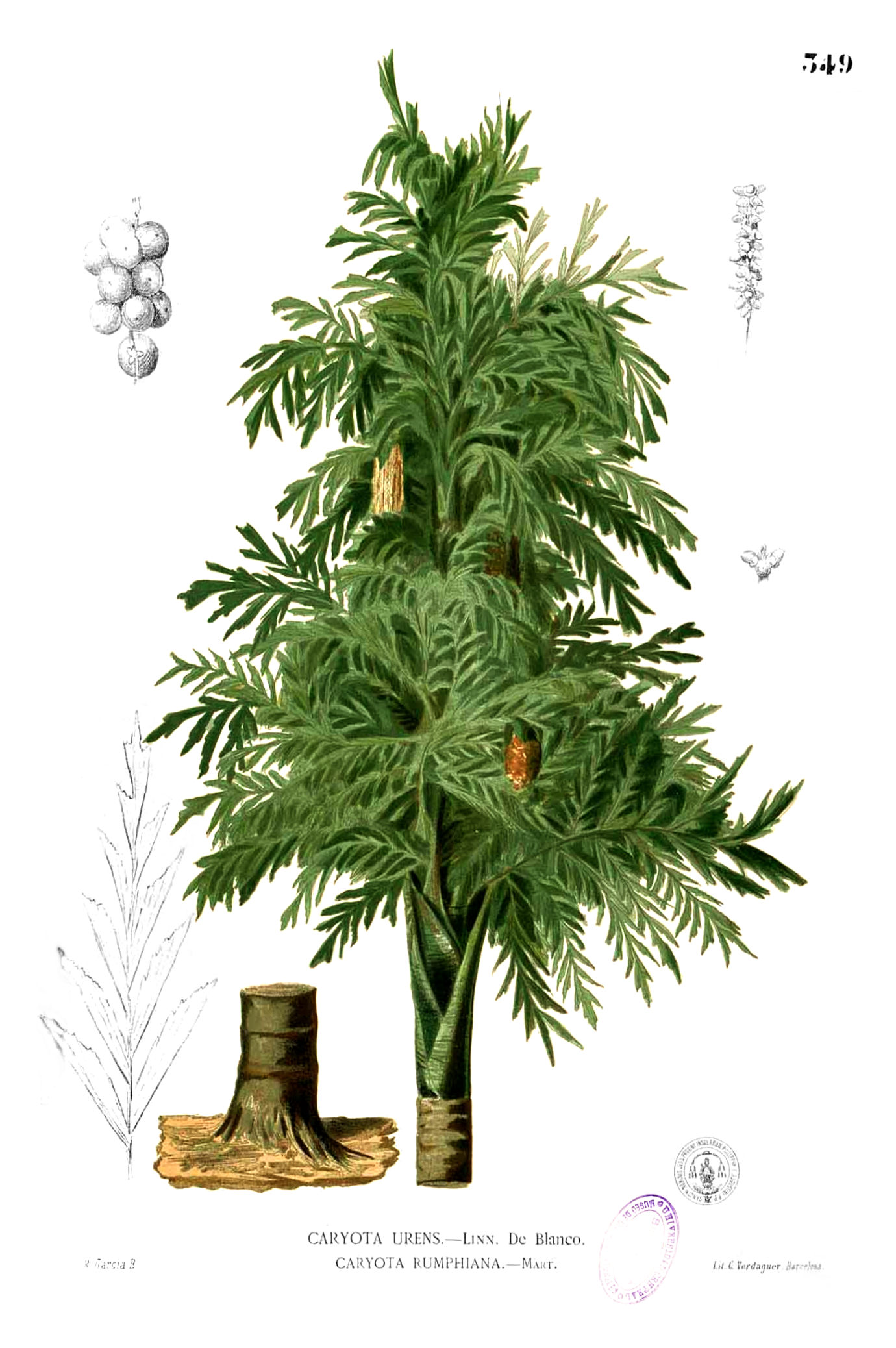 Plate from book